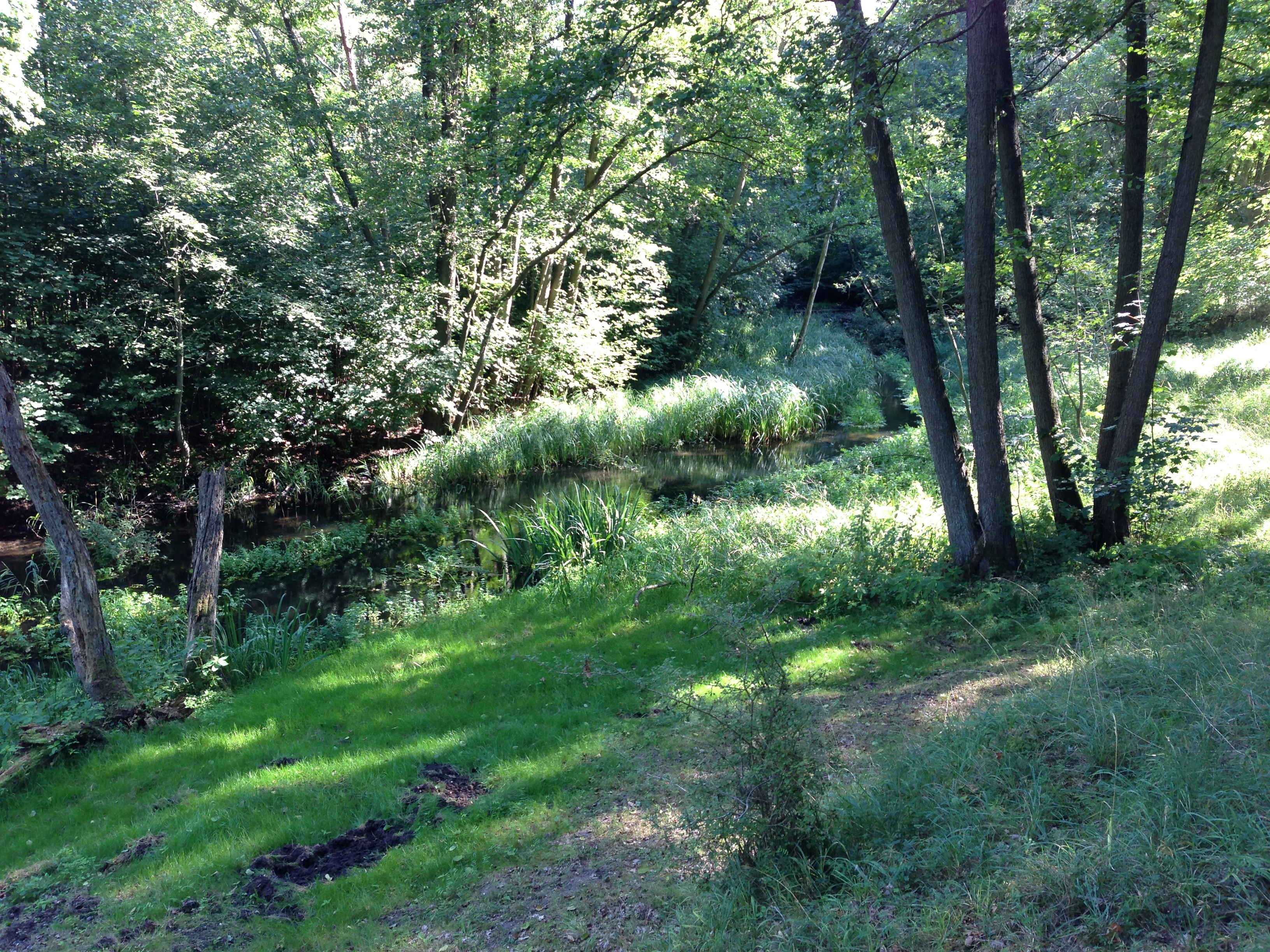 Nature reserve Alte Elde bei Kuppentin near Bobzin, district Ludwigslust-Parchim, Mecklenburg-Vorpommern, Germany